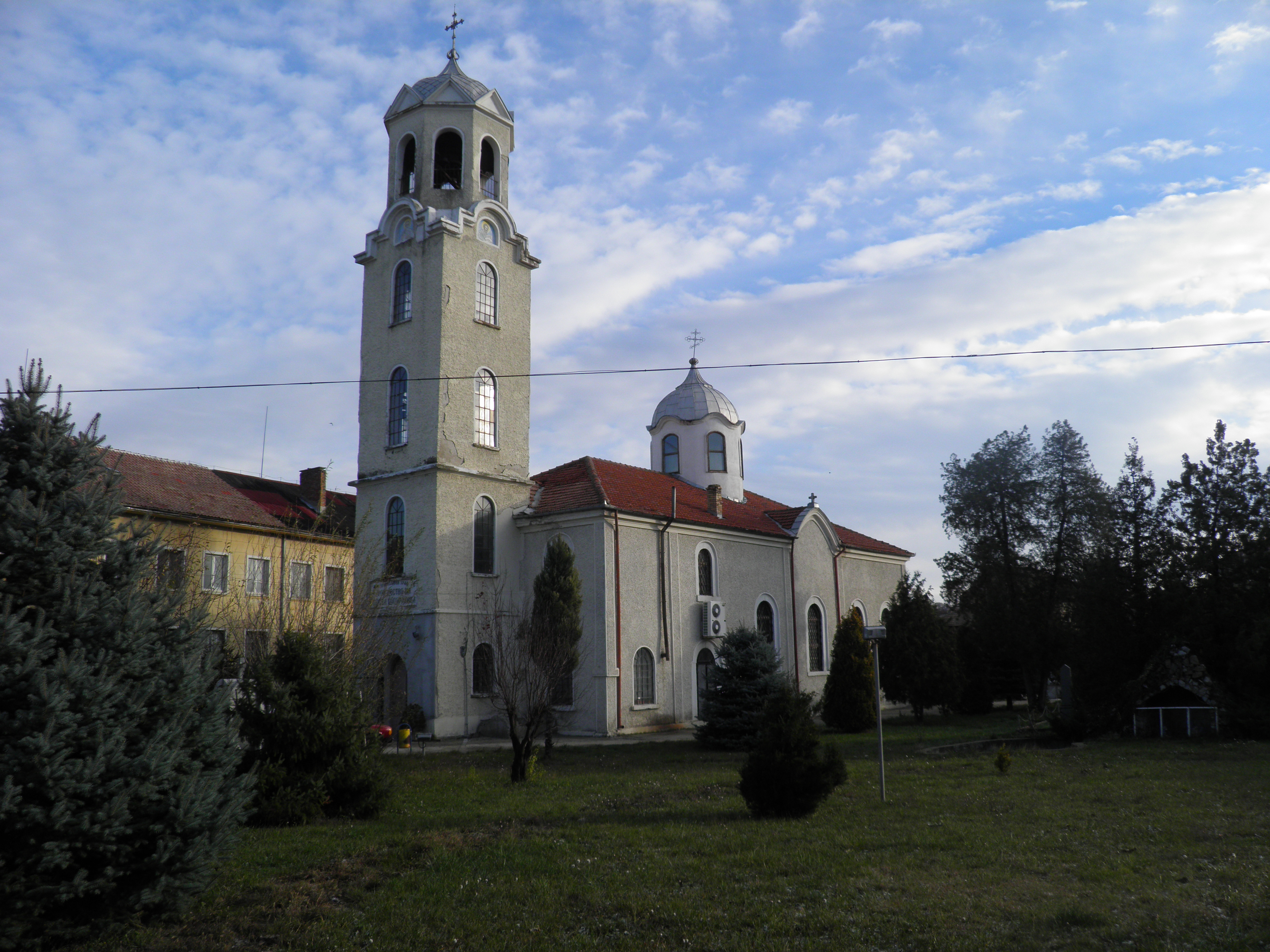 Church "Nativity of the Most Holy Mother" Pavlikeni